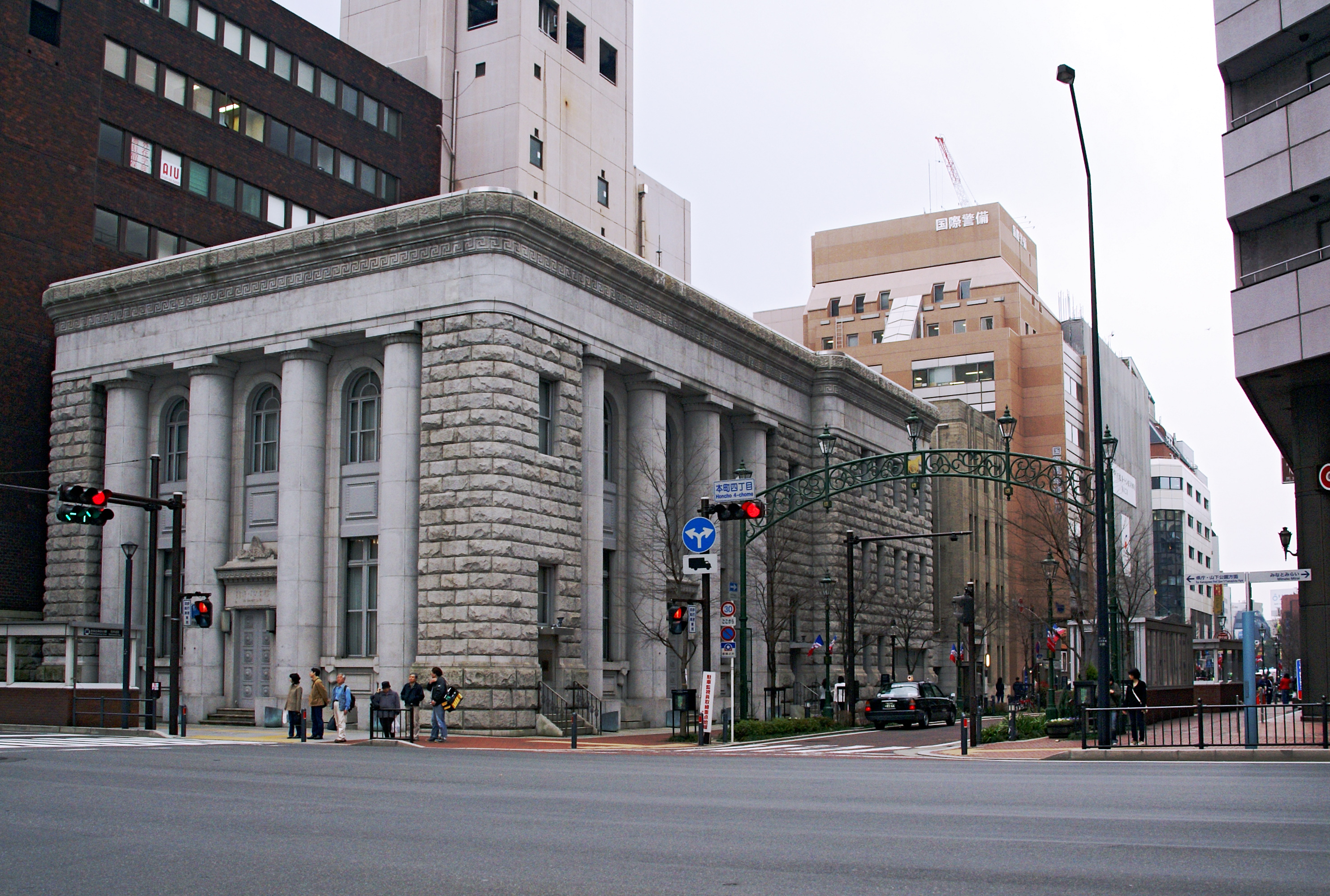 Bashamichi in Yokohama, Kanagawa prefecture, Japan